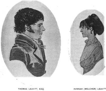 Portraits of Thomas Leavitt and his wife Hannah (Melcher) Leavitt by South Carolina artist James Akin, a friend of Leavitt's. Akin's portraits were drawn in 1808. Thomas Leavitt and his wife Hannah of Hampton Falls, New Hampshire, were the parents of Benson Leavitt, Boston merchant and Acting Mayor of Boston.